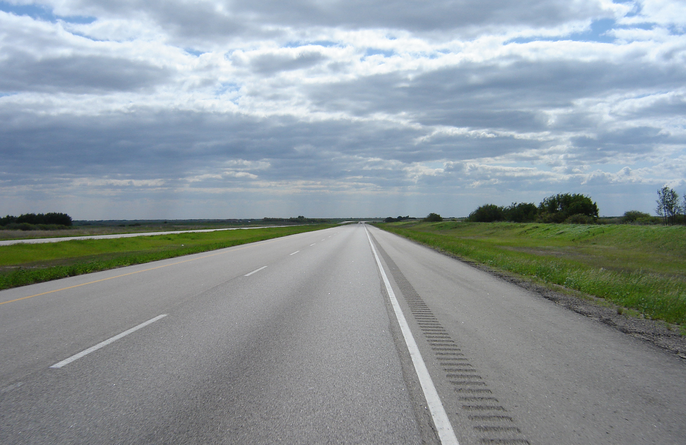 Scene on Sk Hwy 11 showing shoulder bumps which vibrate the vehicle when driven upon indicating a switch from driving within the driving lane to driving on the highway shoulder. Taken from Saskatchewan Highway 11, Louis Riel Trail travelling south from Saskatoon to Regina